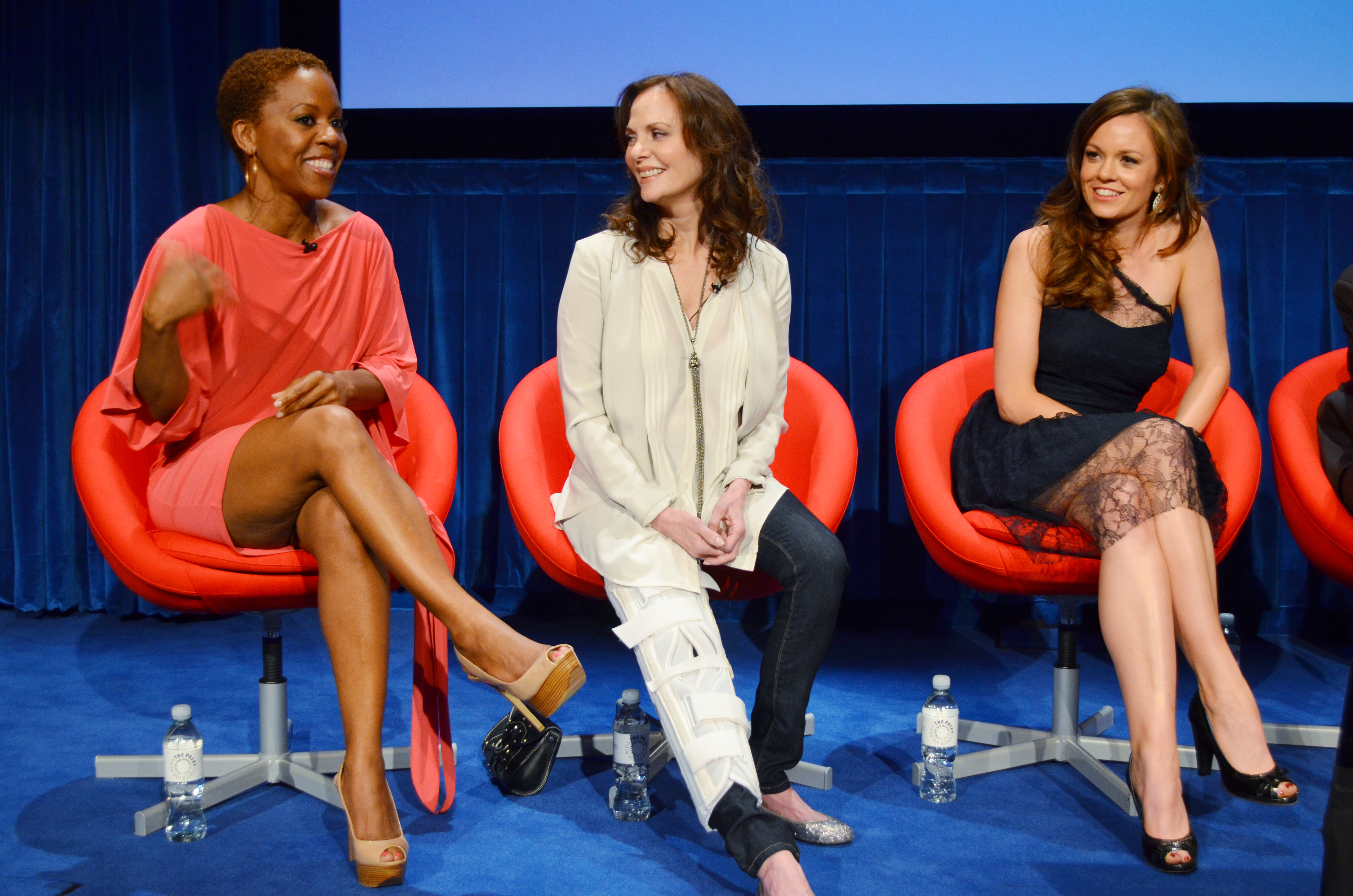 Rachel Boston at the Paley Center, in April 2012